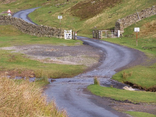 Ford at Fore Gill Gate. The 'watersplash' in 'All Creatures Great and Small'.